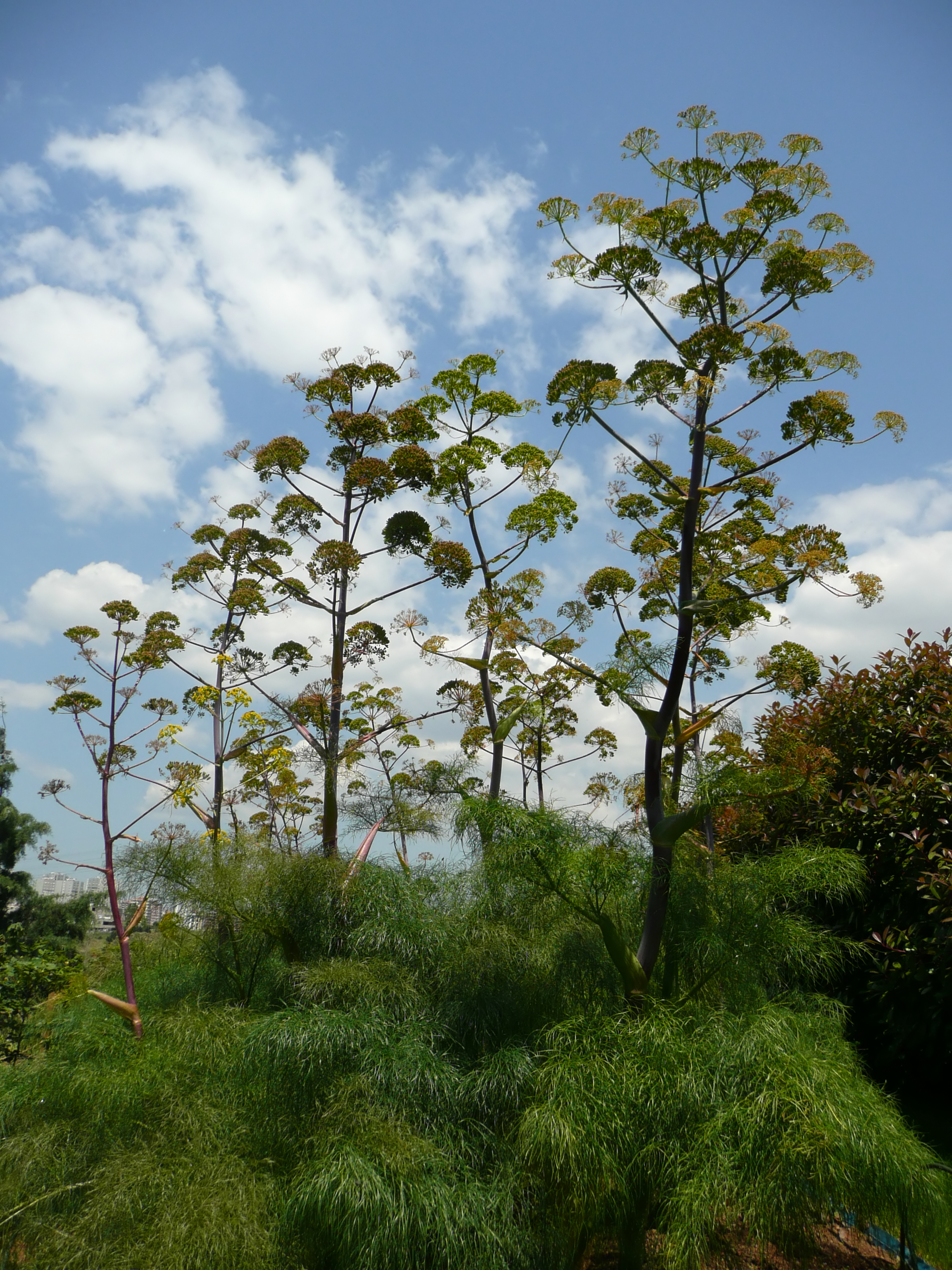 Ferula communis. Photographs from TEMA, Nezahat Gökyiğit Park, Istanbul